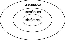 relationship between syntactic, semantic and pragmatic